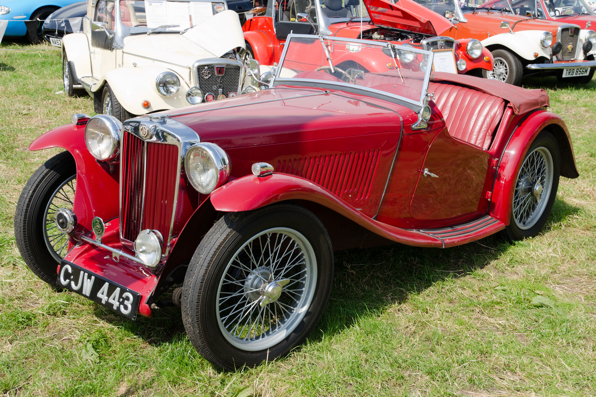 Cholmondeley Pageant of Power 14/06/2014